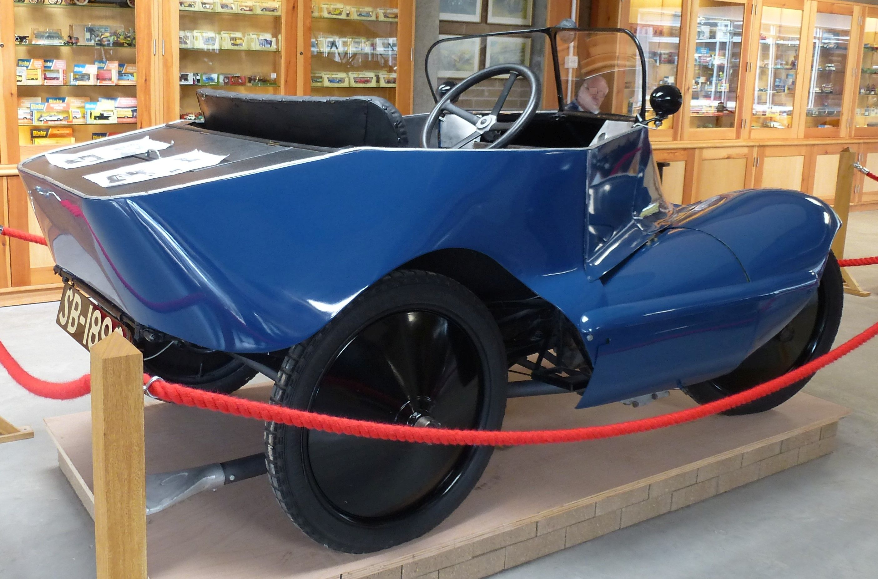 Scott Sociable 1923